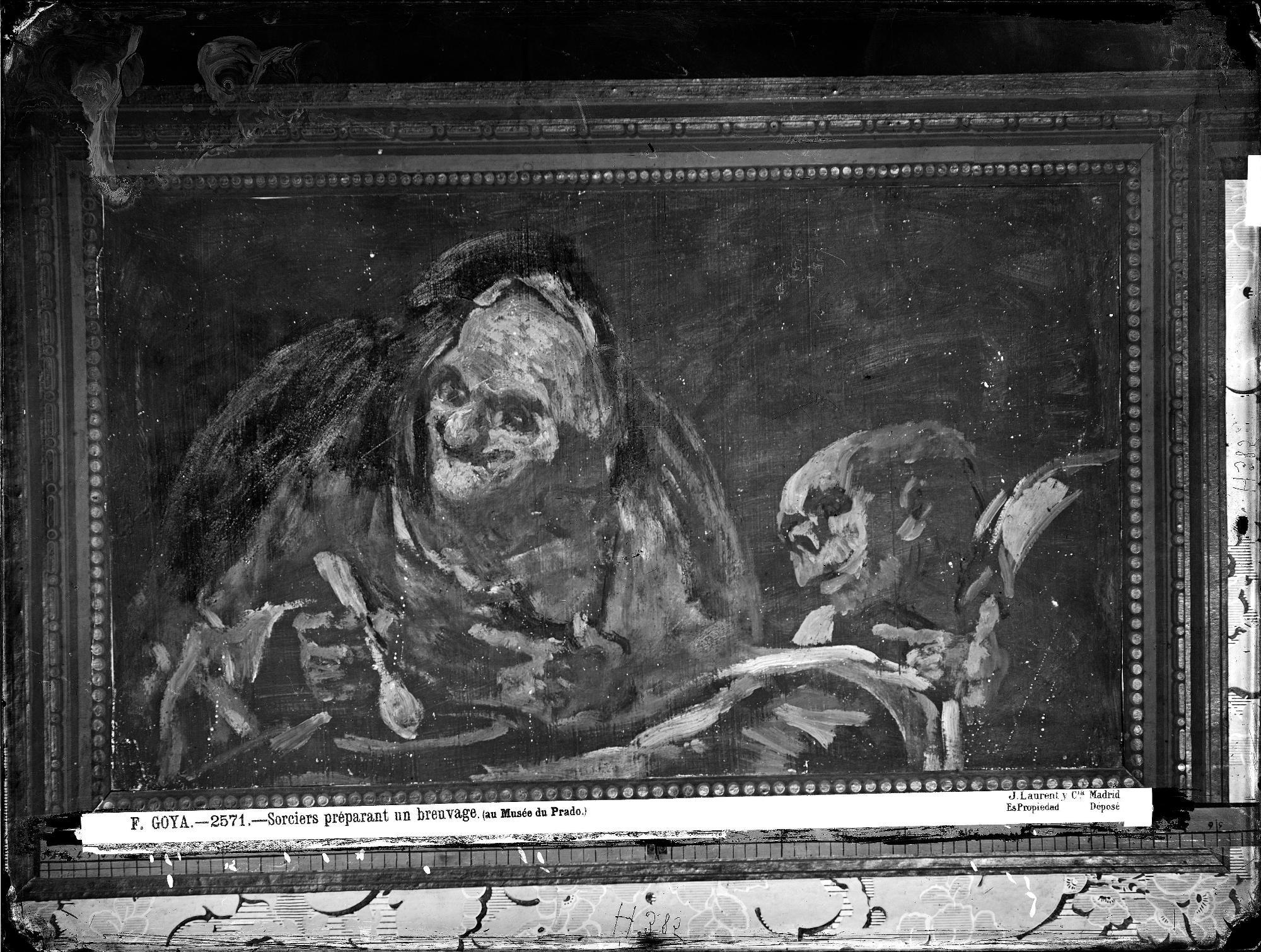 In 1874, at the Quinta de Goya. Photo by J. Laurent, on the wall of the old house of Goya. Series of Black Paintings, before being transferred to canvas. The image was obtained by scanning the original glass negative, wet collodion, format 27 x 36 centimeters, which is preserved in the Archives Ruiz Vernacci. IPCE Photo Library. Madrid. Possibly, Laurent photographed "Two Old Men Eating Soup" with electric light.